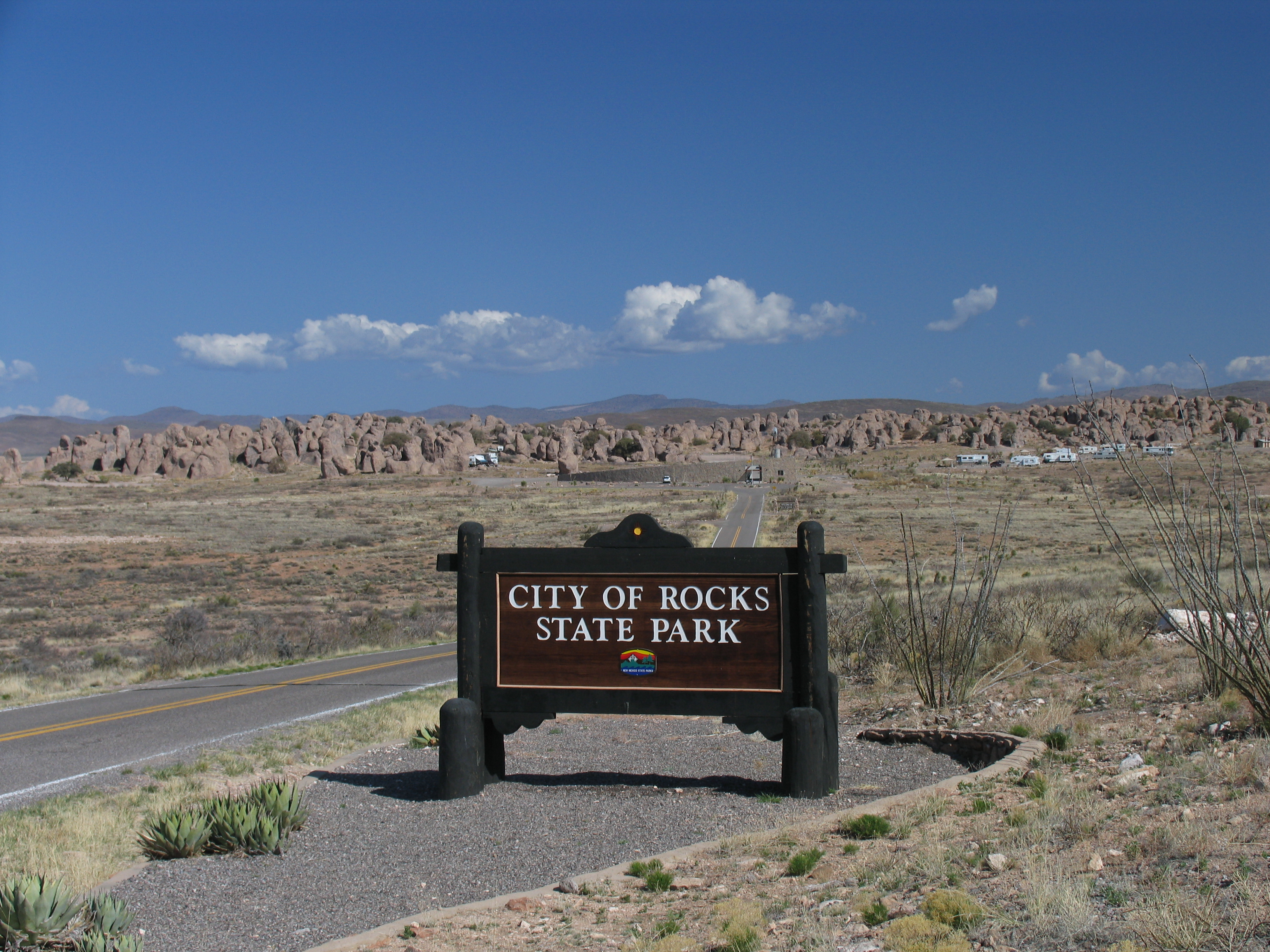 City of Rocks State Park New Mexico USA